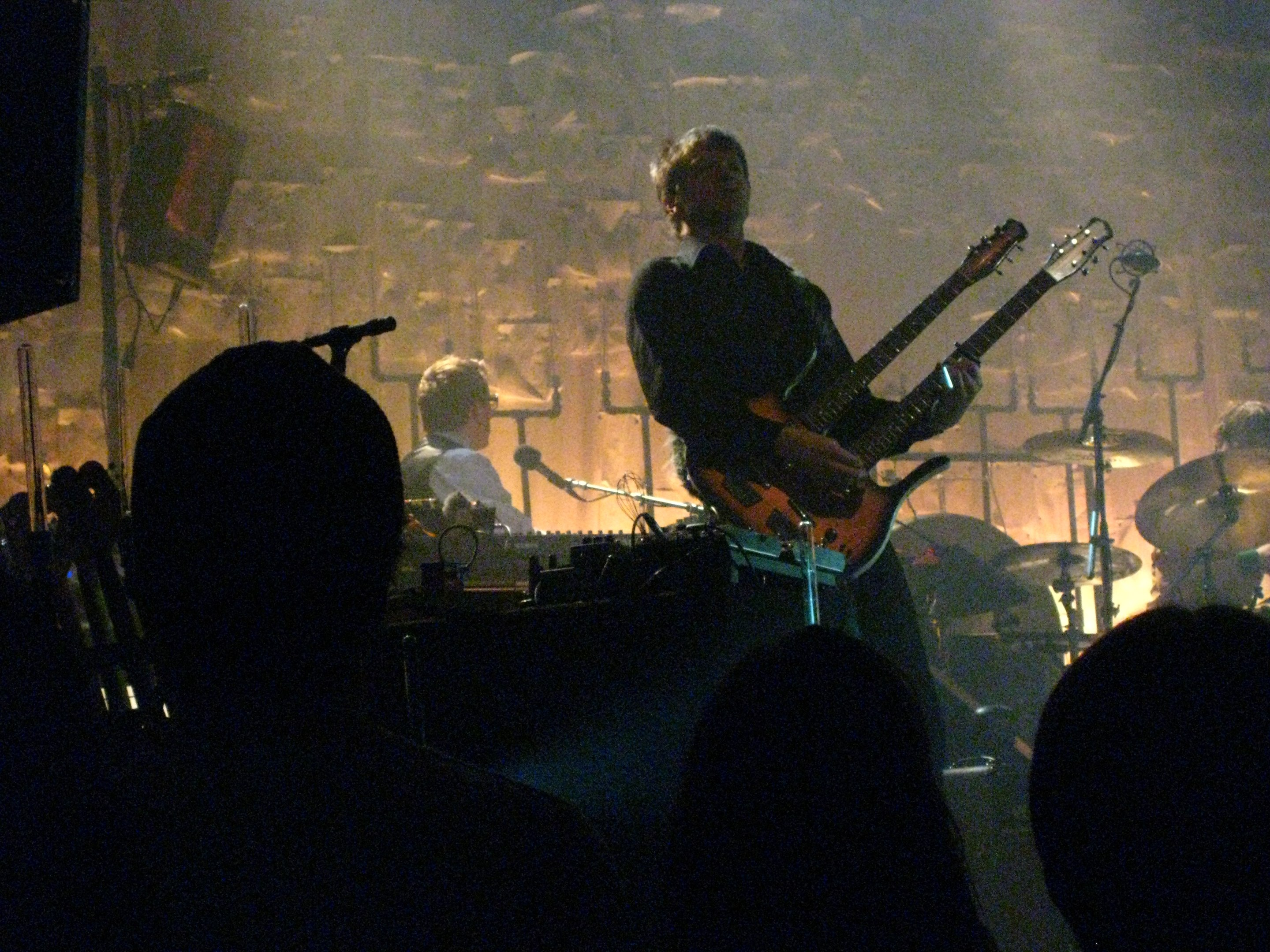 Nils double neck Wilco London on 24.2.10 Danelectro Longhorn Baritone Doubleneck [1]